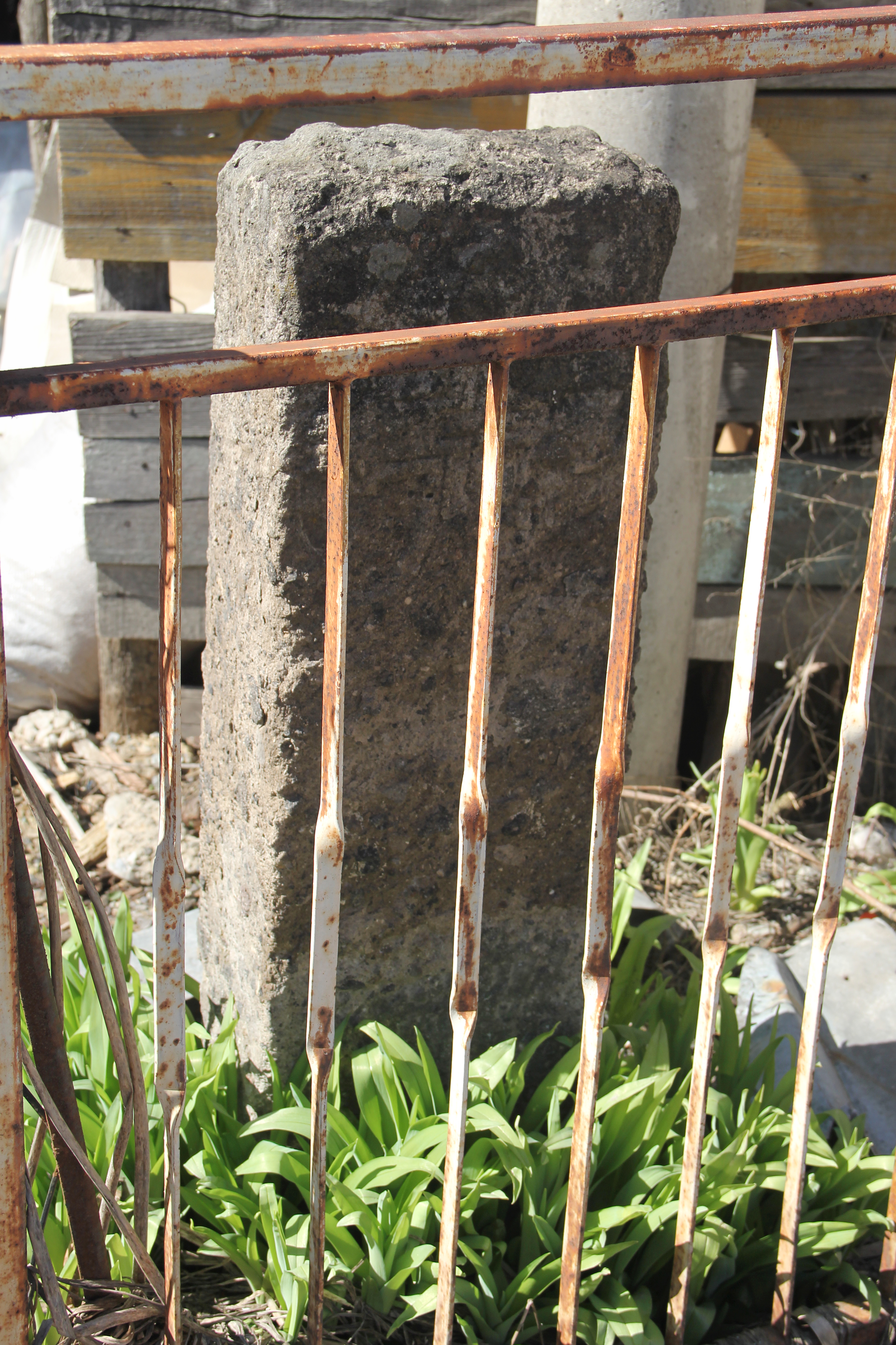 Roadside tombstone erected in memory of Radojevic. It is located in the center of Rudnik town (the municipality of Gornji Milanovac), Serbia.